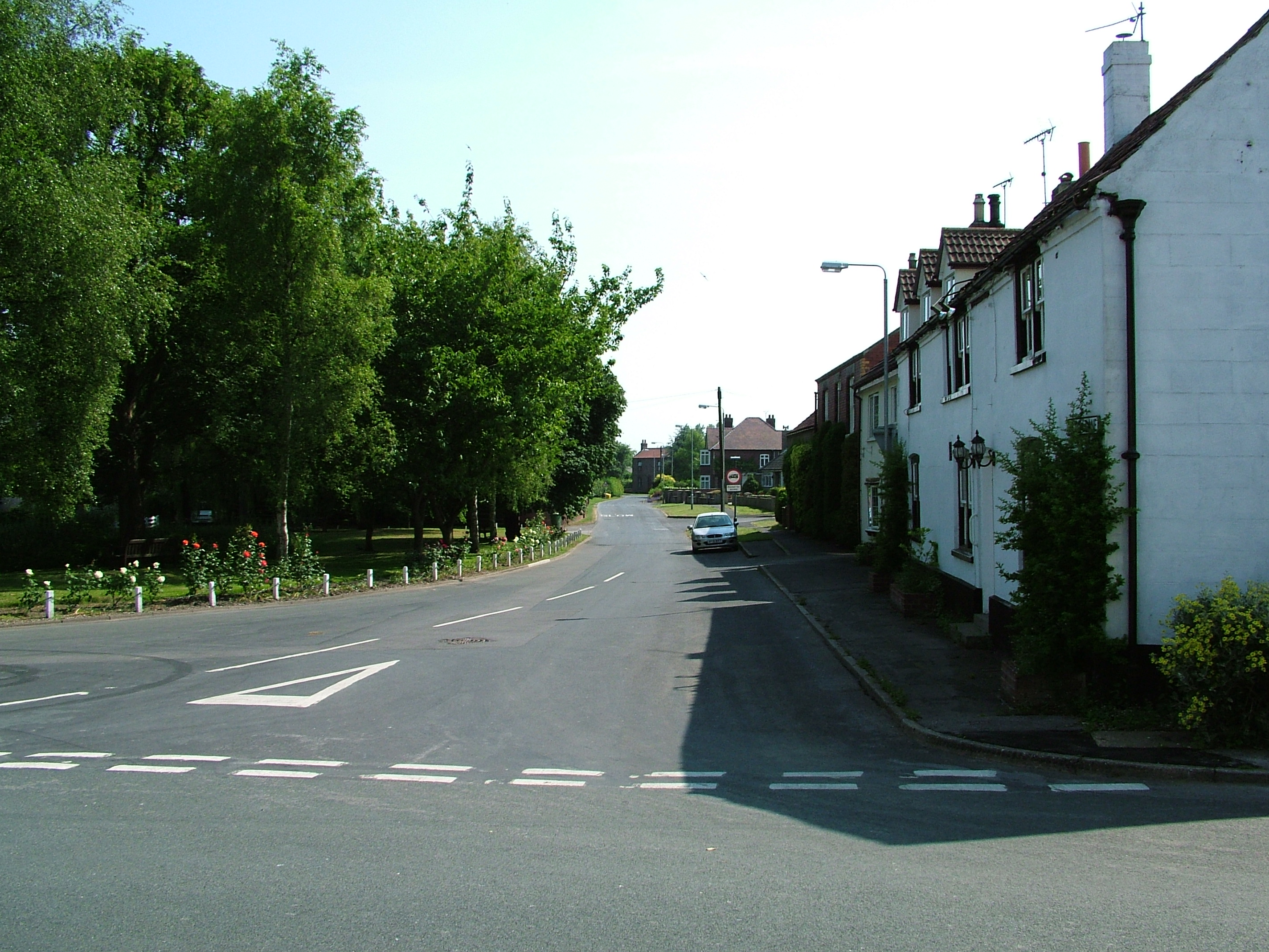 Church Lane, Little Driffield, East Riding of Yorkshire, England. own work